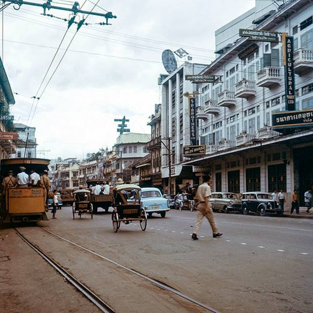 Vibrant Yaowarat Road of 1958